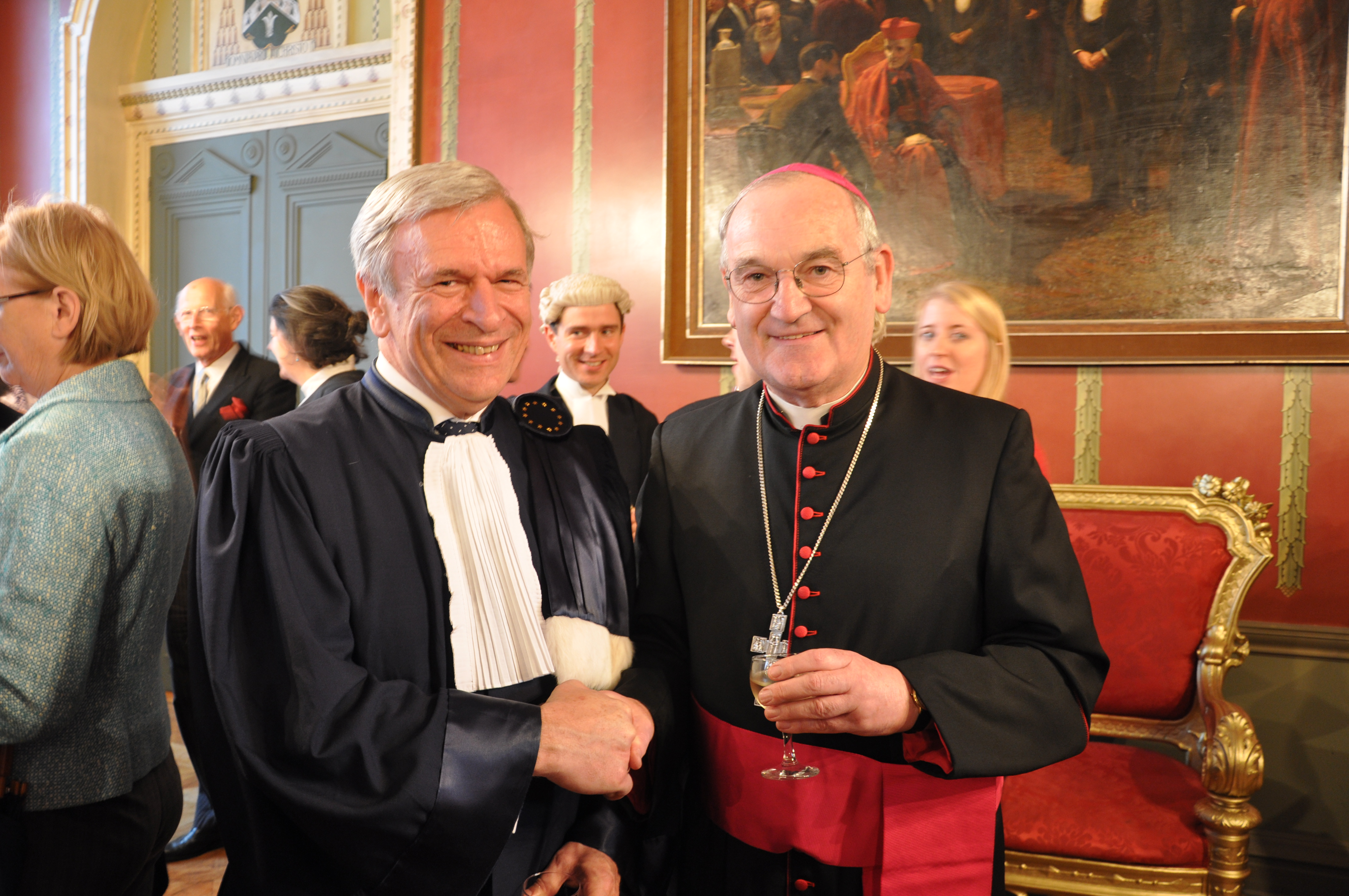 The Hon. Mr Justice Nicolas Bratza and Bishop George Stack